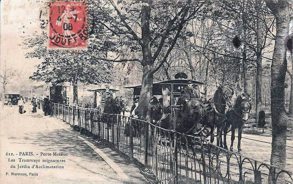 Les Tramways miniatures du Jardin d'Acclimatation, Paris (France), Porte Maillot.